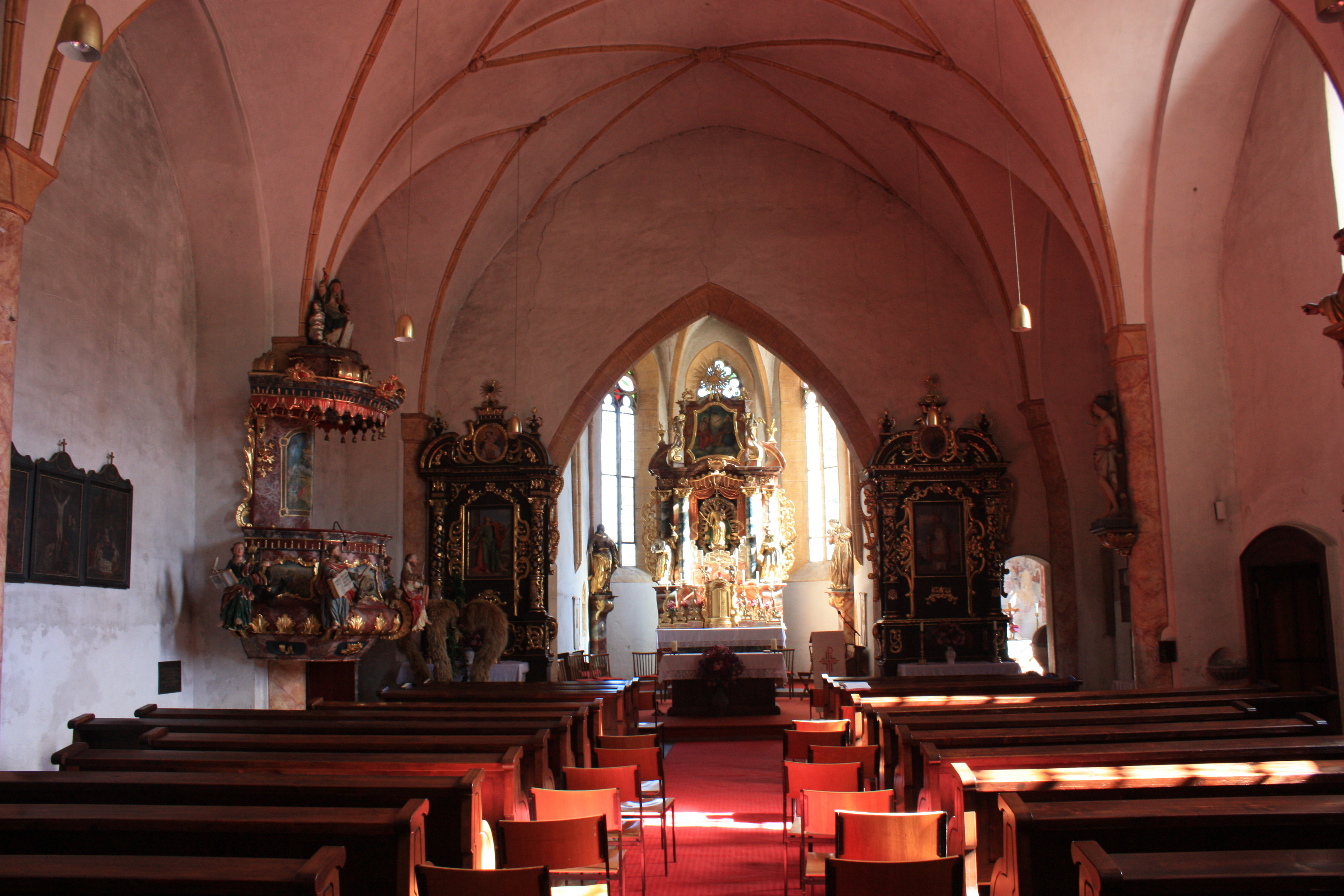 Parish church Saint John Ev. - Interior Locality:Weitensfeld Community:Weitensfeld